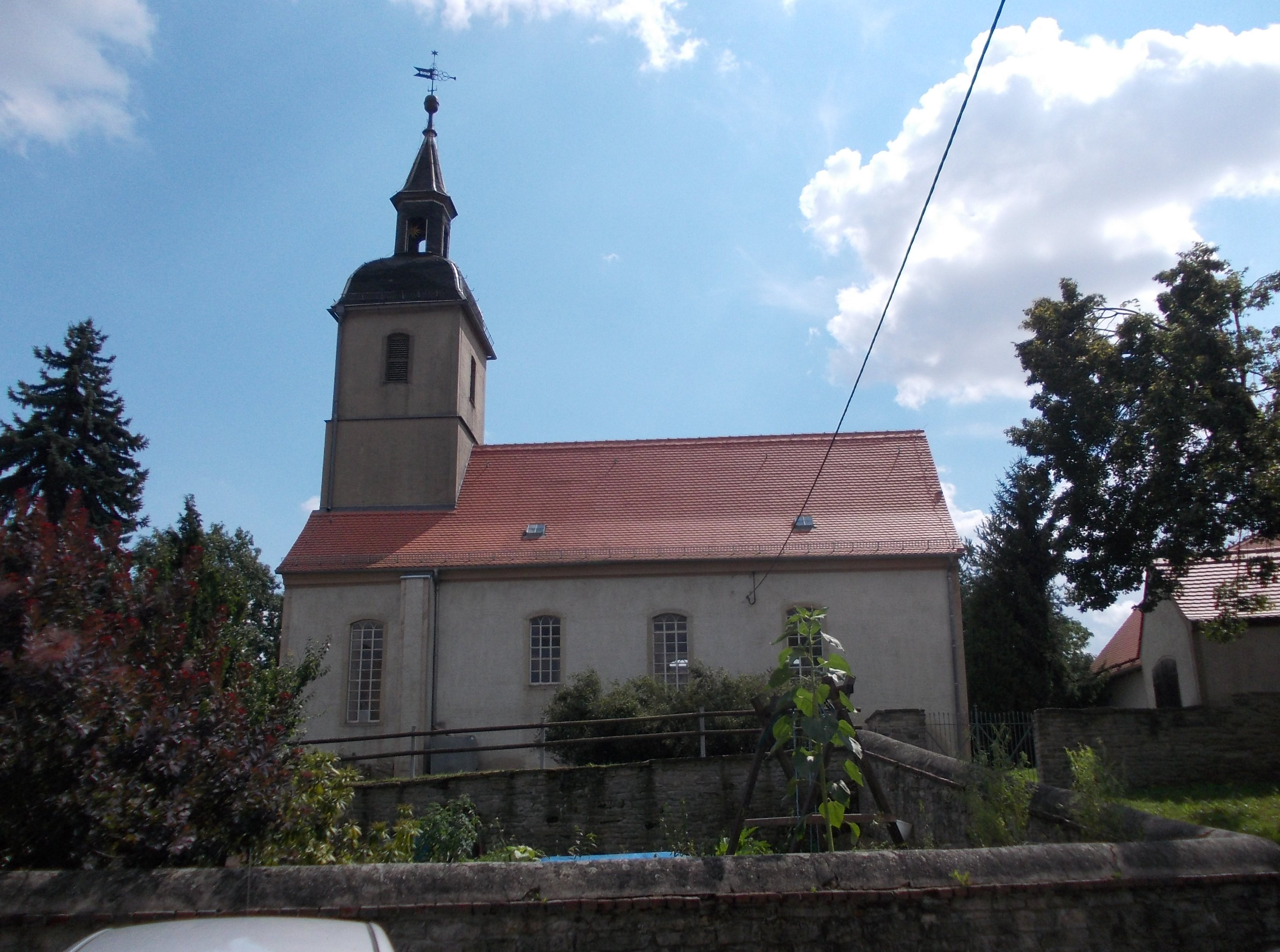 Grosspörthen church (Schnaudertal, district: Burgenlandkreis, Saxony-Anhalt)